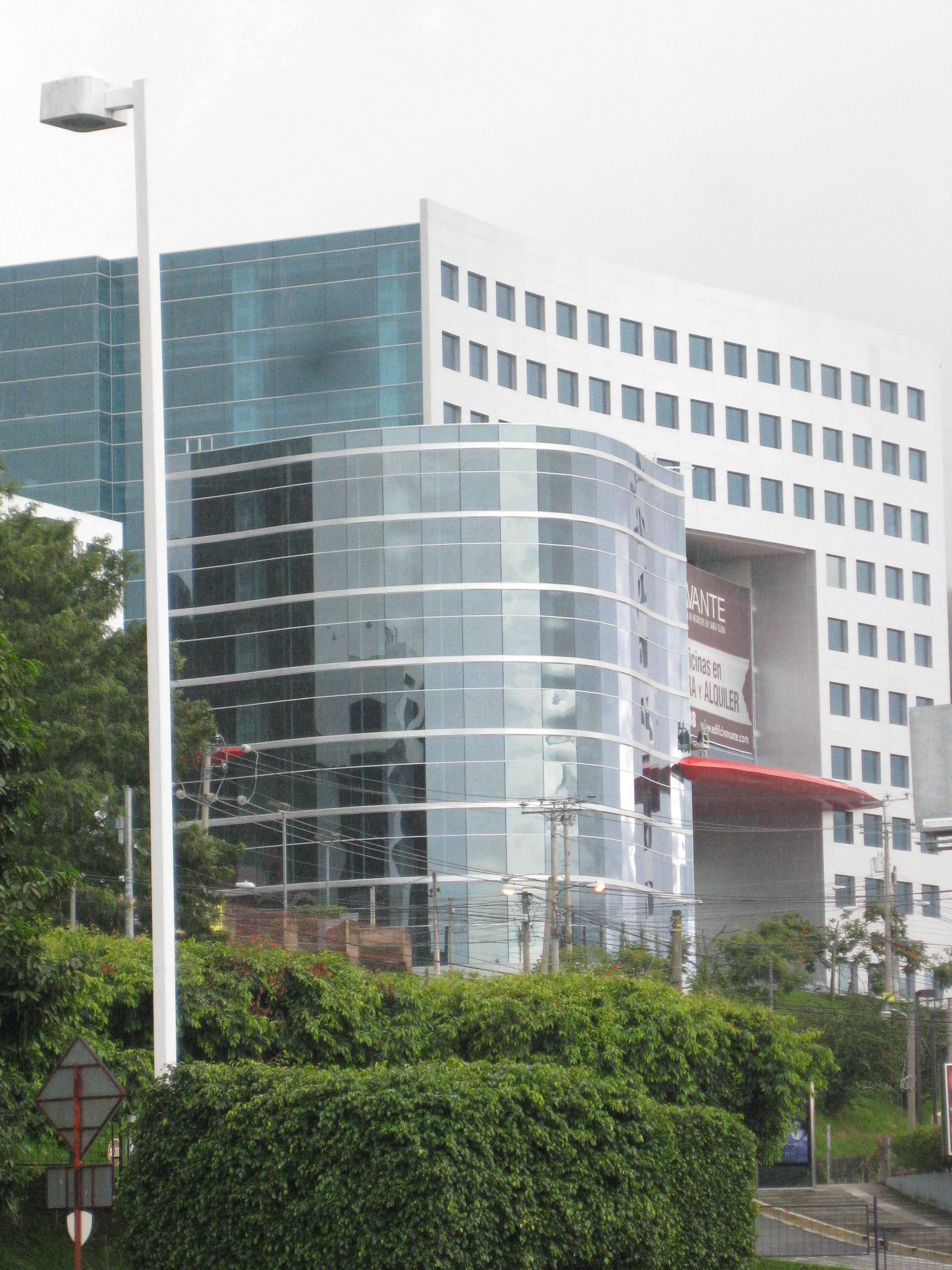 Edificio Avante